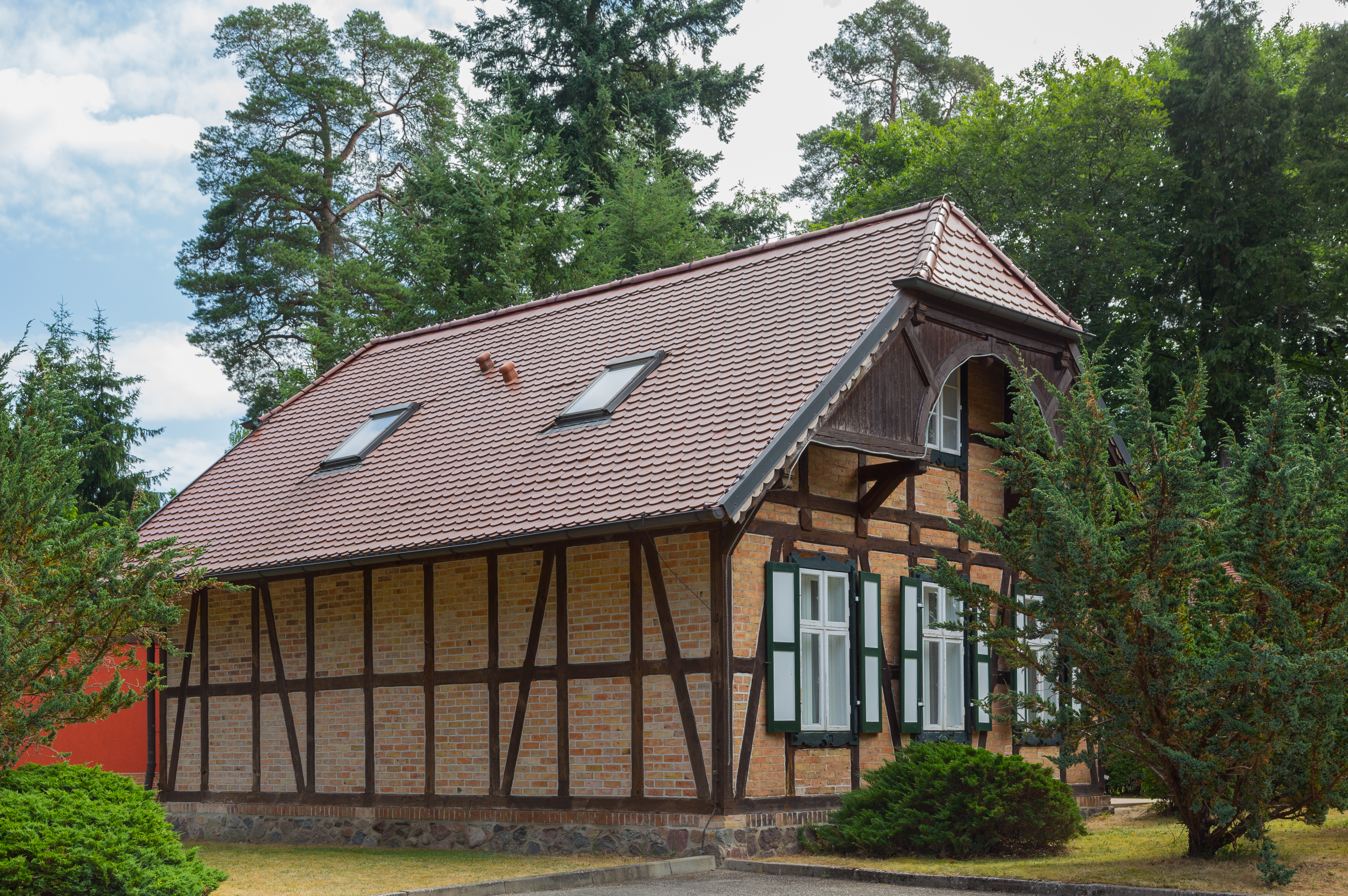 The former servants' house of Waldsee Hunting Castle (Jagdschloss Waldsee) in Waldsee, district of Feldberger Seenlandschaft, Landkreis Mecklenburgische Seenplatte, Mecklenburg-Vorpommern, Germany. Nowadays it is called Coach House (Kutscherhaus) and forms part of the hotel buildings of Waldsee Hunting Castle. Picture taken with permission.